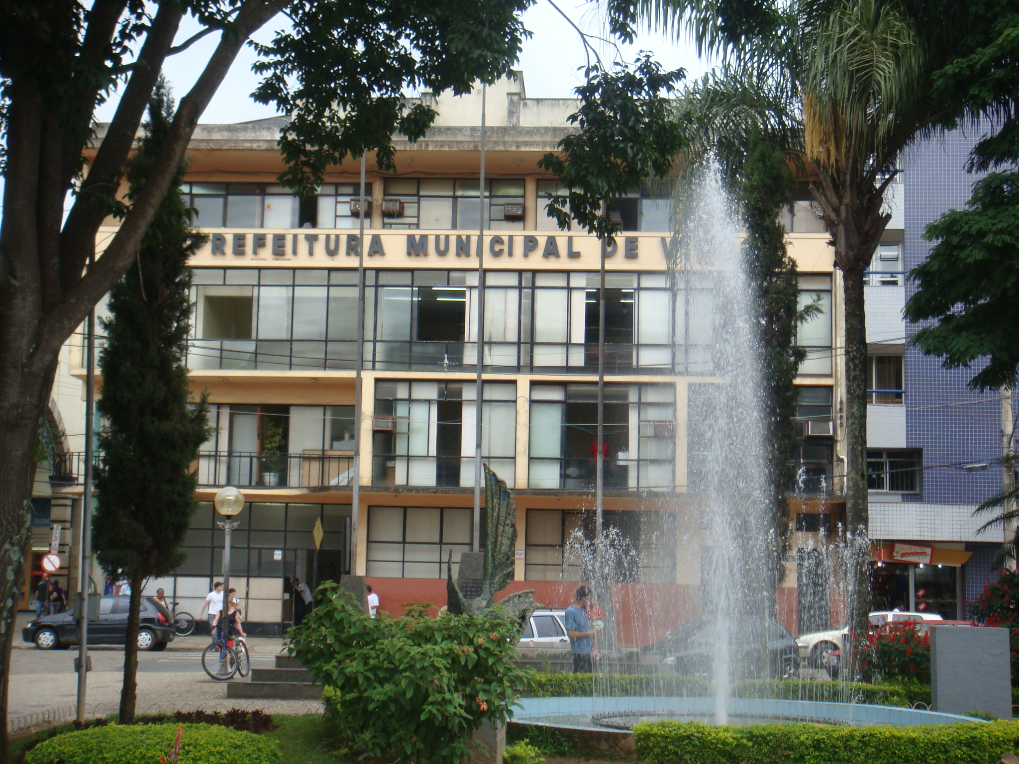 City Hall Viçosa